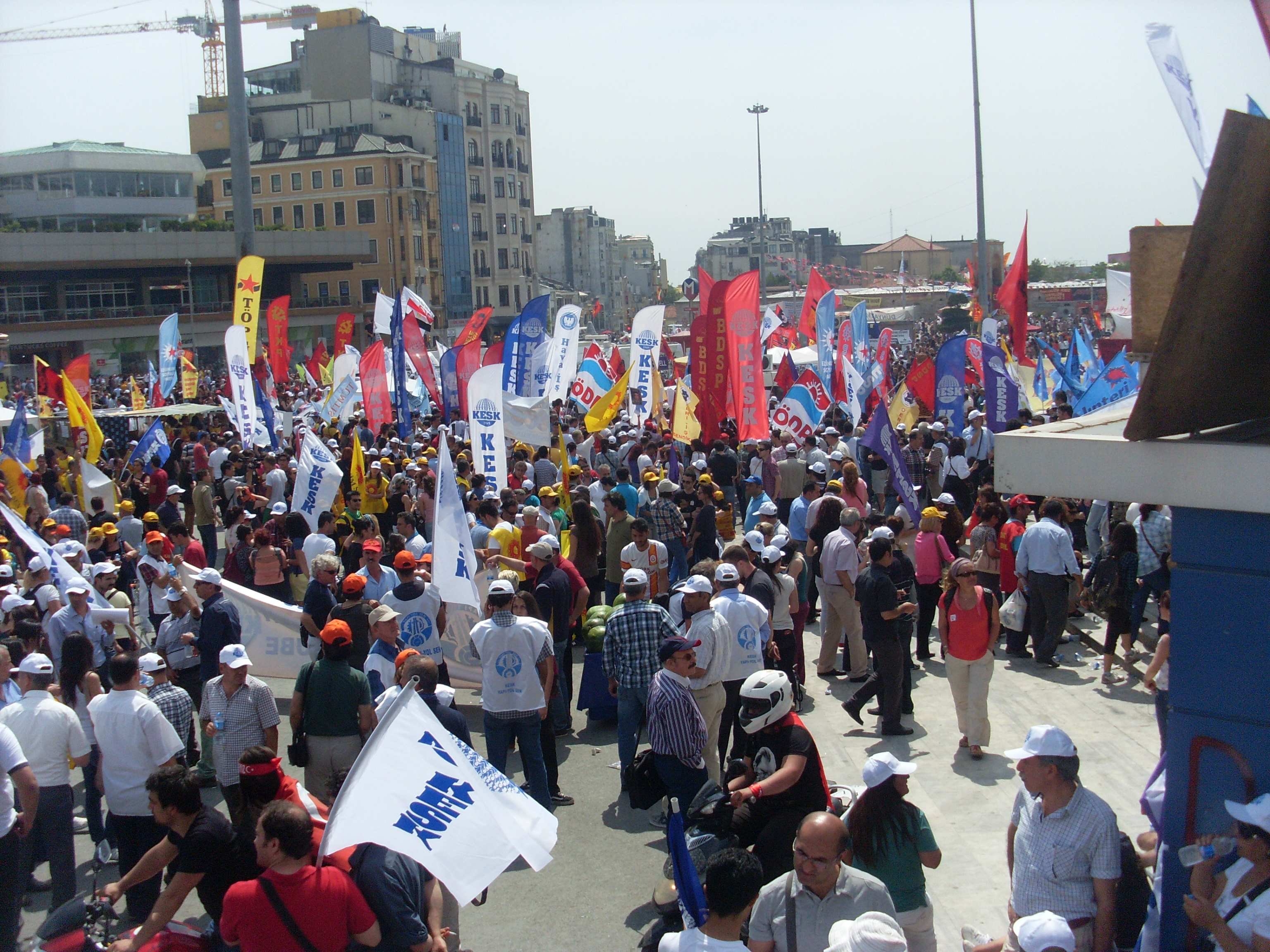 2013 Taksim Gezi Park protests, a view from Taksim Square on 5th June 2013 2